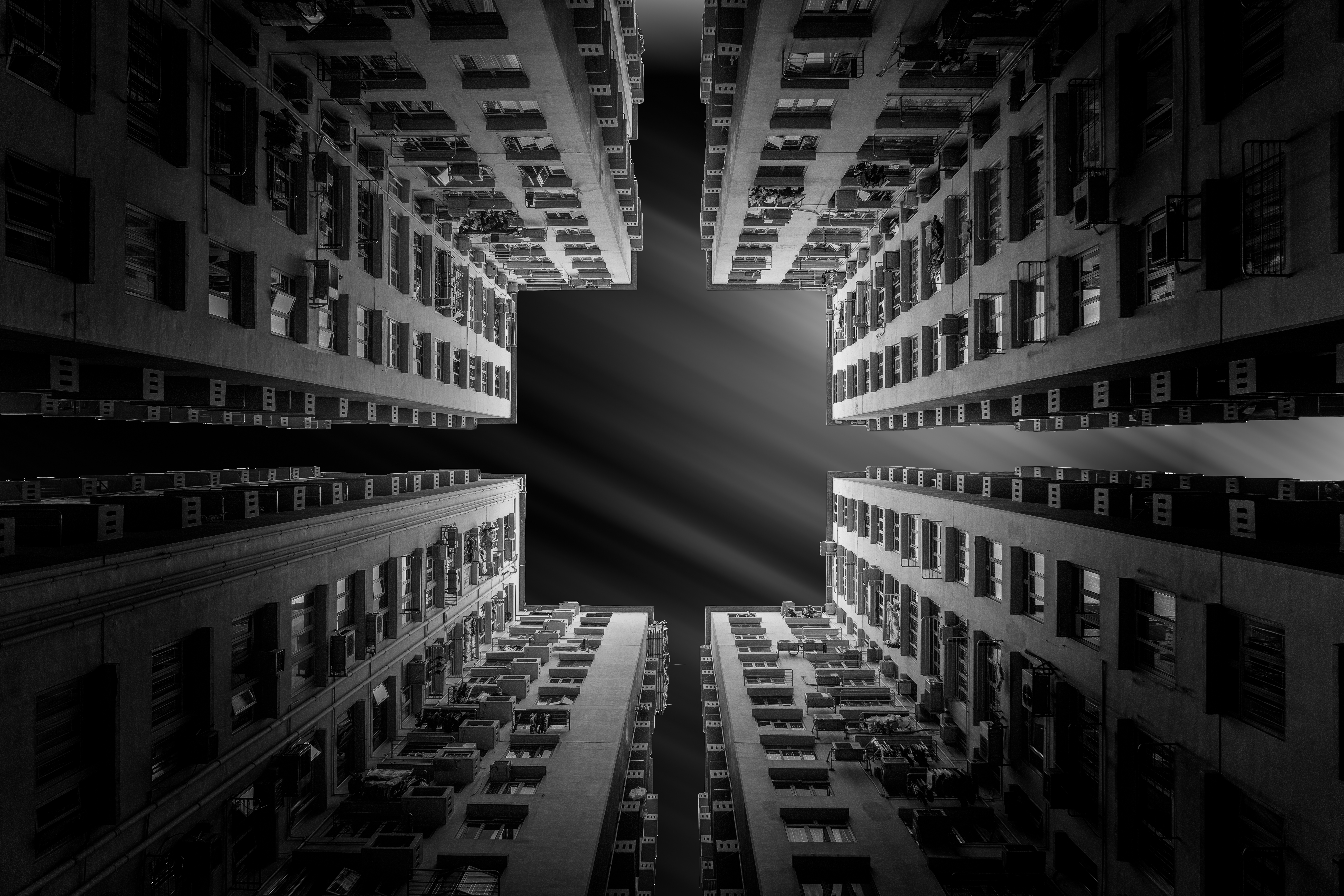 Bedford Garden, Hong Kong